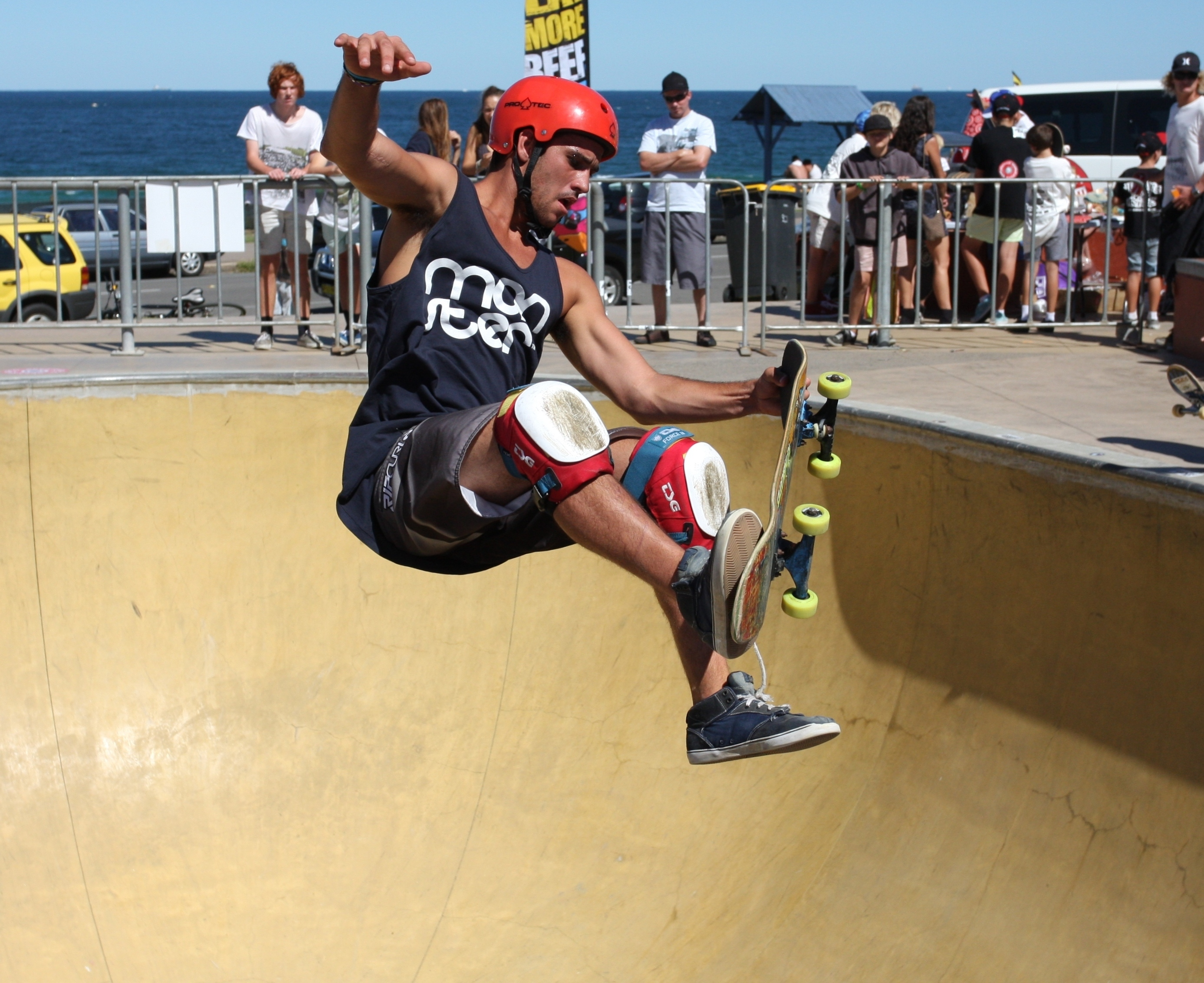 A skateboarder in mid flight perfoming stunts and practicing for future tornament.